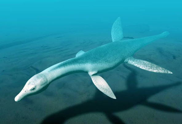 Life recunstruction of Archaeonectrus